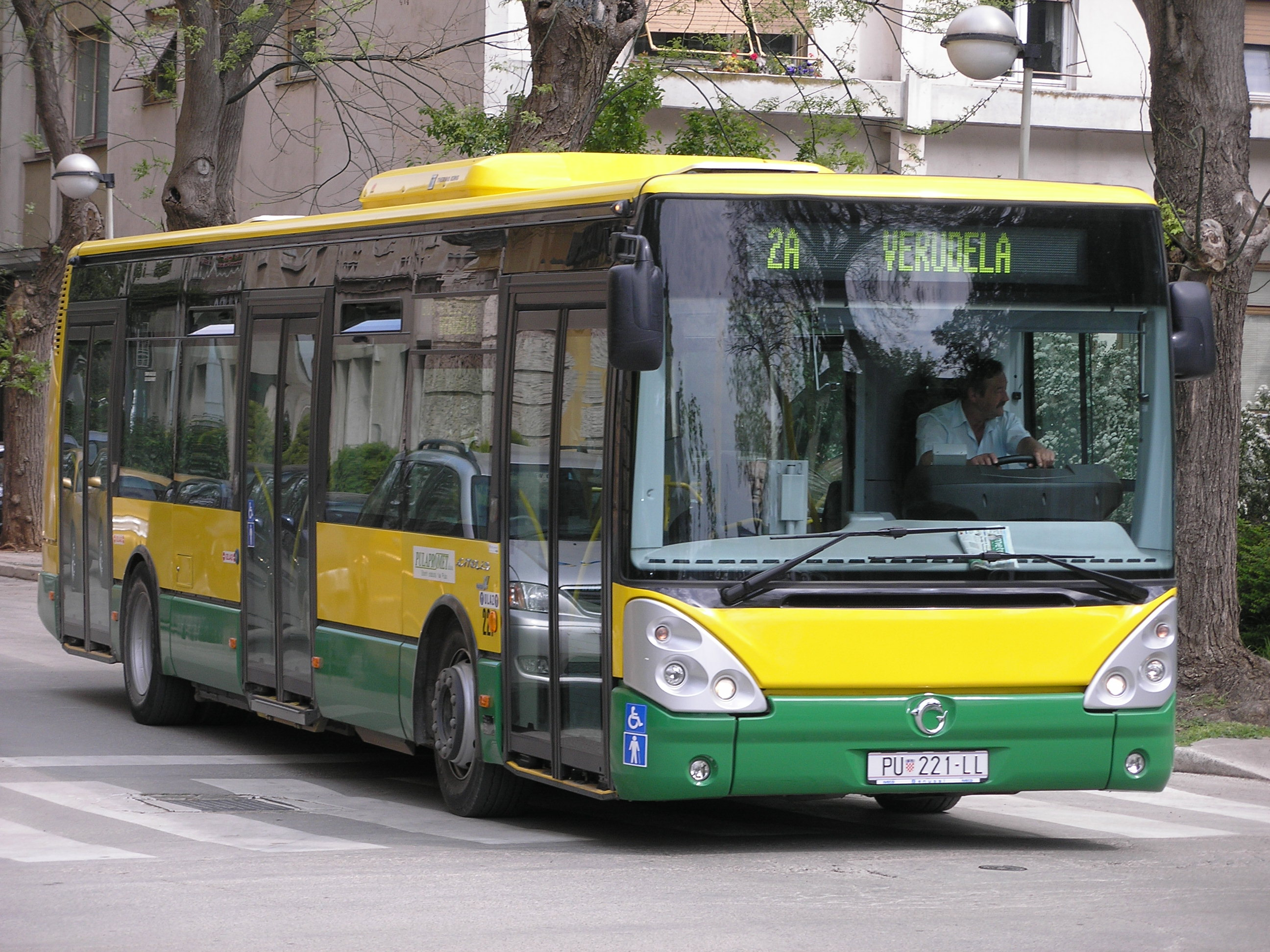 A Pulapromet bus